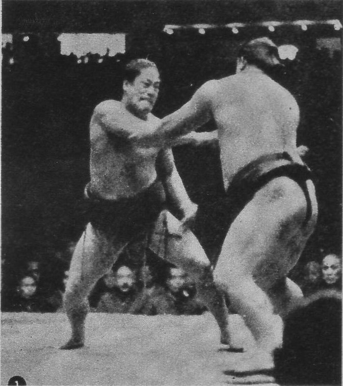 Maedayama Eigorō (Left) VS Futabayama Sadaji (Right), 1941.